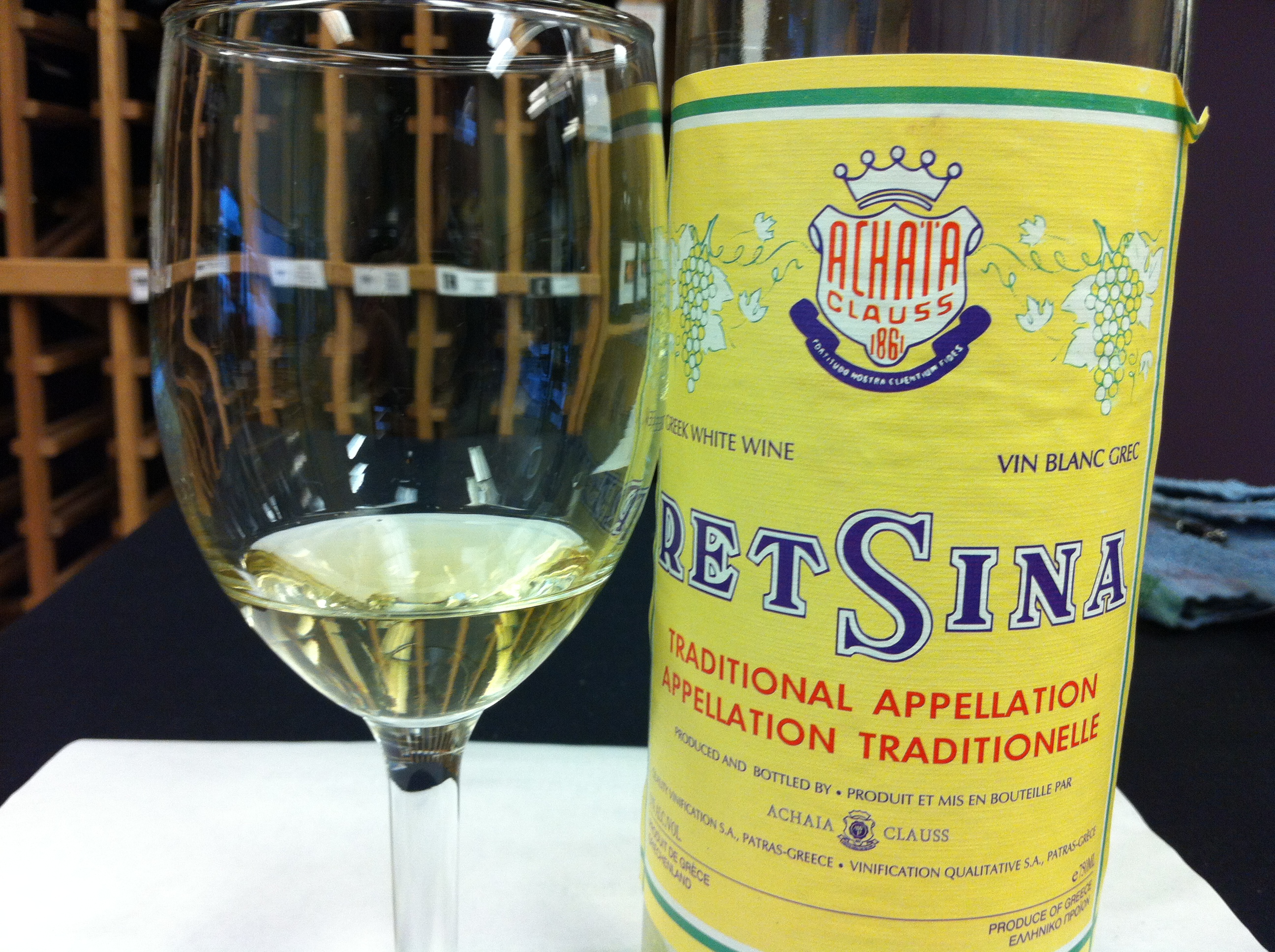 Greek white wine flavored with pine resin from Achaia Clauss winery in Patras